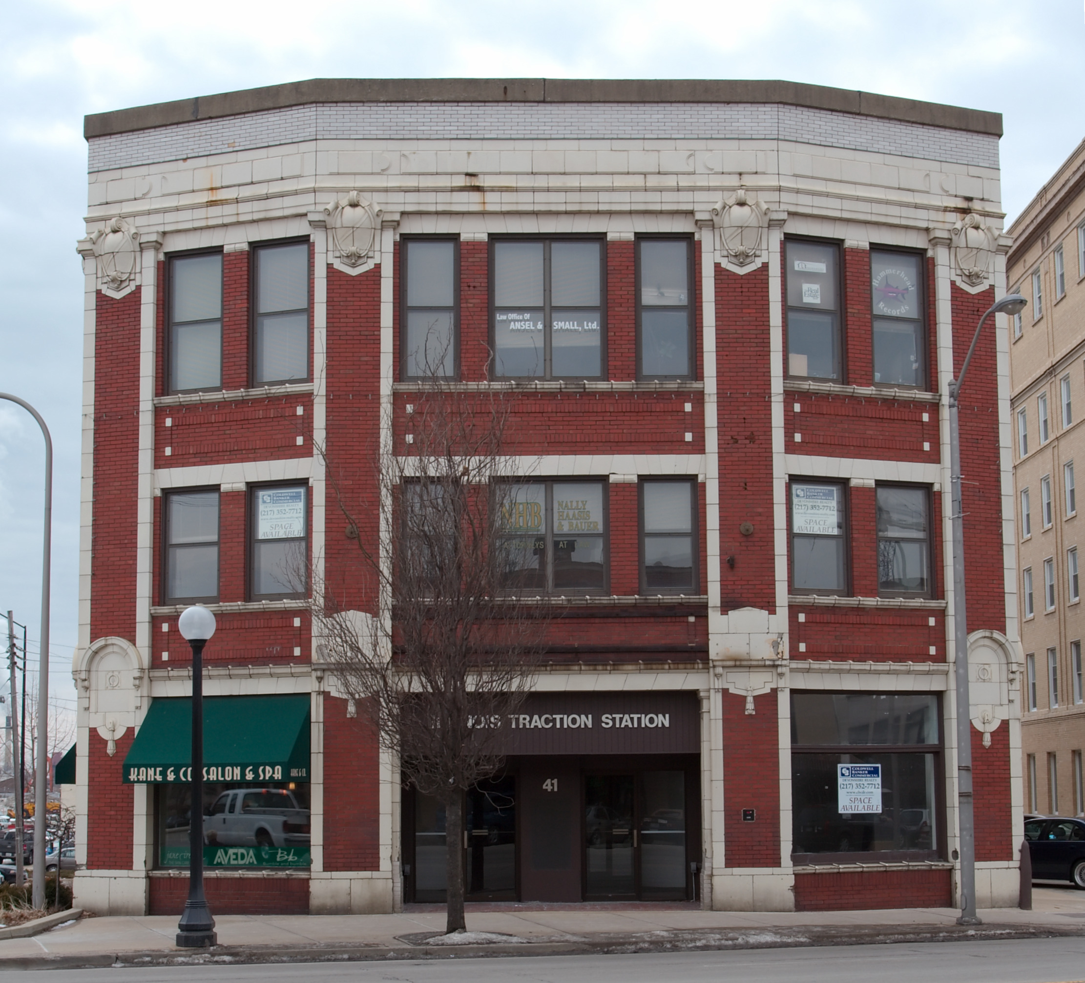 Champaign, IL Illinois Traction Building (added 1986 - Building - #86003782) Also known as Illinois Power Building 41 E. University Ave., Champaign Historic Significance: Event, Architecture/Engineering Architect, builder, or engineer: McKinley,William, Royer,Joseph Architectural Style: No Style Listed Area of Significance: Architecture, Transportation, Commerce Period of Significance: 1900-1924 Owner: Private Historic Function: Commerce/Trade, Transportation Historic Sub-function: Professional, Rail-Related Current Function: Commerce/Trade